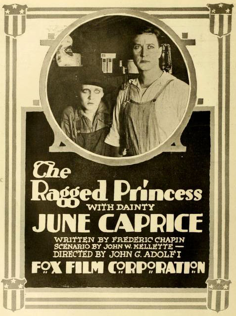 Advertisement in Moving Picture World.